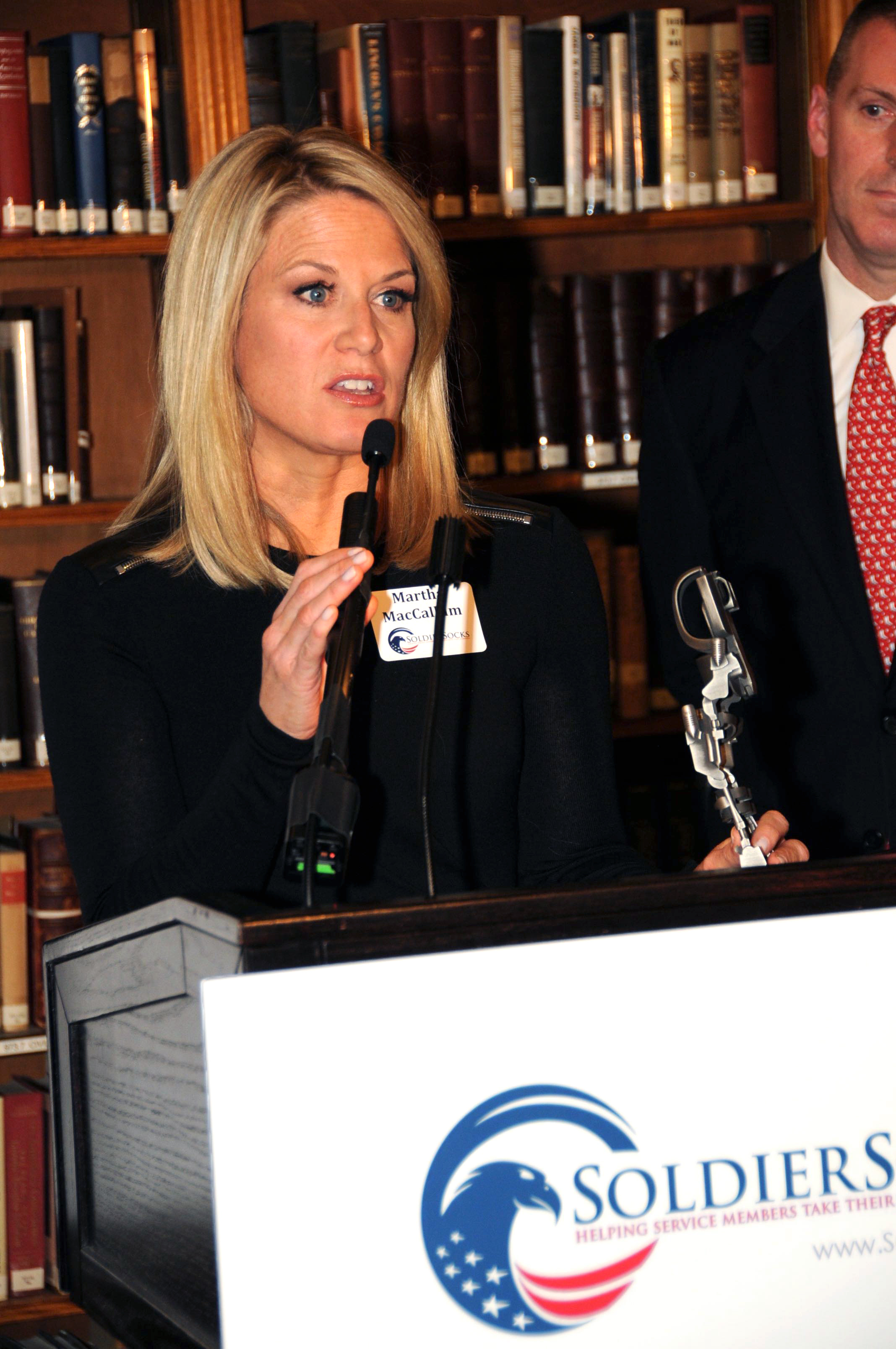 Marth MacCallum accepting the Commitment to Service Award in 2014